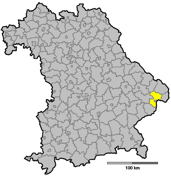 Description: locator map of the former (1970) districts (Landkreise) in Bavaria, Germany Source: own work --Immanuel Giel 08:30, 24 February 2006 (UTC) Other versions: none